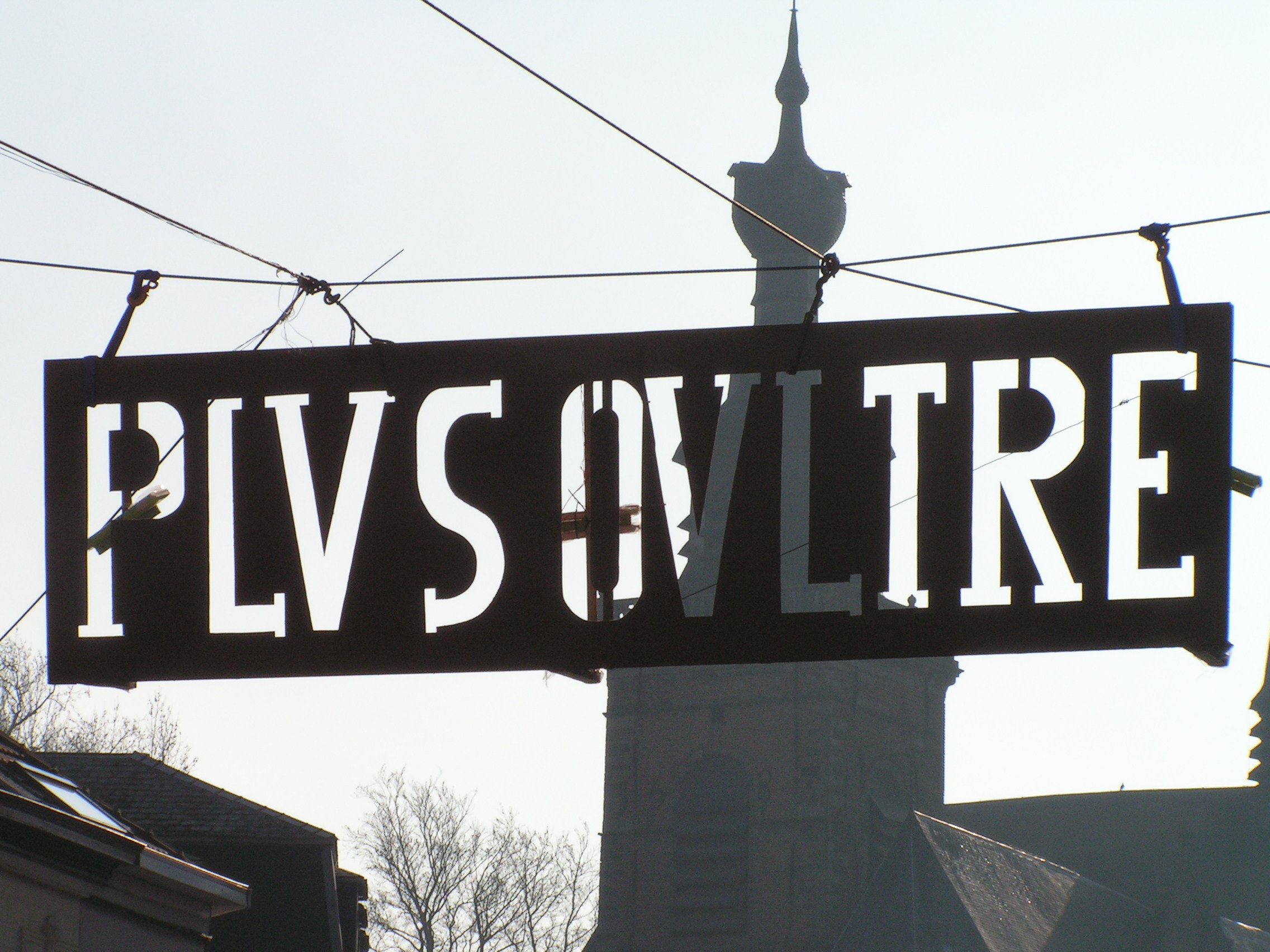 PLVS OVLTRE (Plus oultre, further), motto of Charles V and the city of Binche (Belgium) where lived the Charles V'sister: Marie de Hongrie. This is an element of the fireworks for the carnival 2005. This "Plus Oultre" will burn, signifying the end of the ending "rondeau". In background, the Collegiale St Ursmer